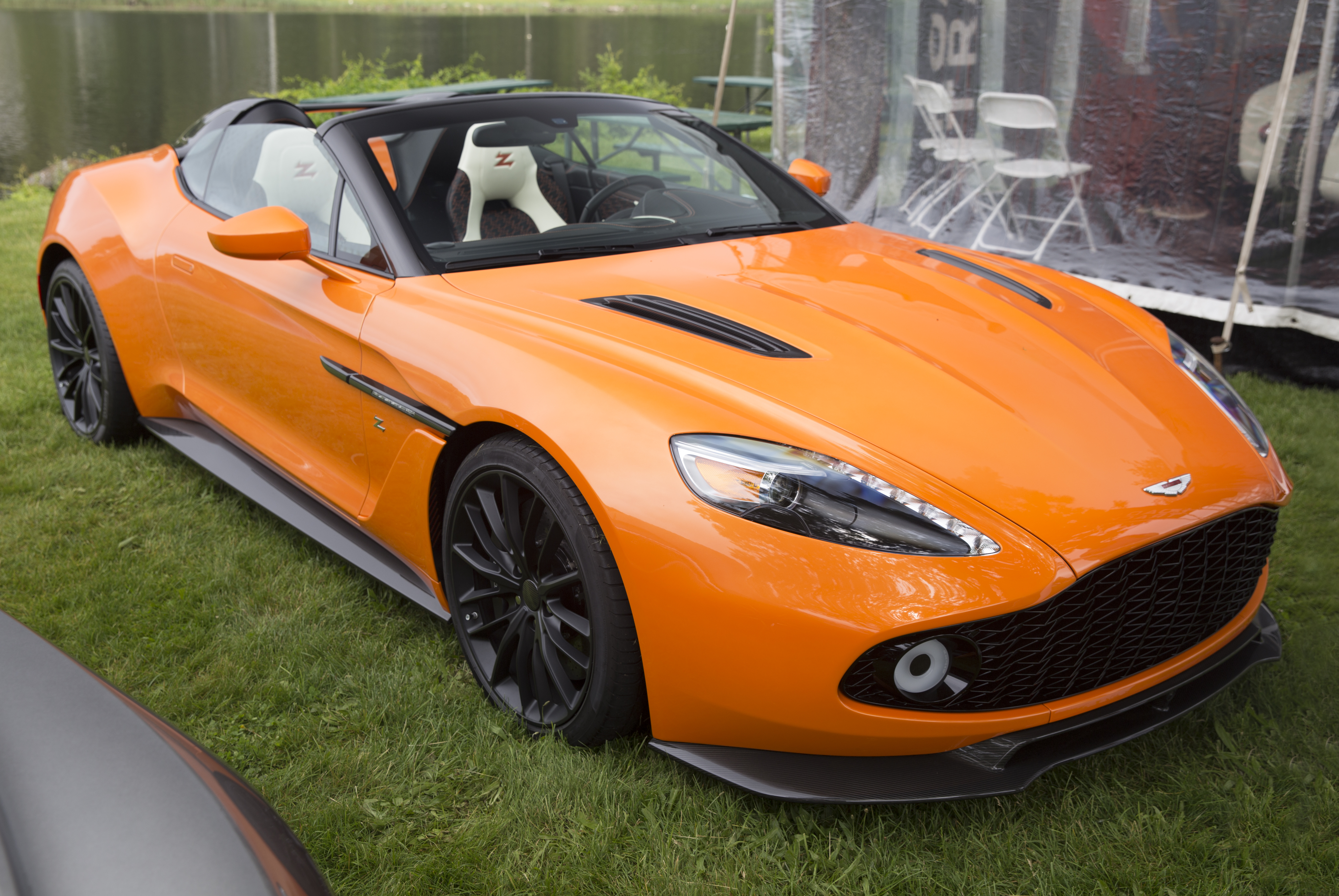 2018 Aston Martin Vanquish Zagato Speedster in Golden Saffron at the 2019 Greenwich Concours d'Elegance, car #19 of 28.